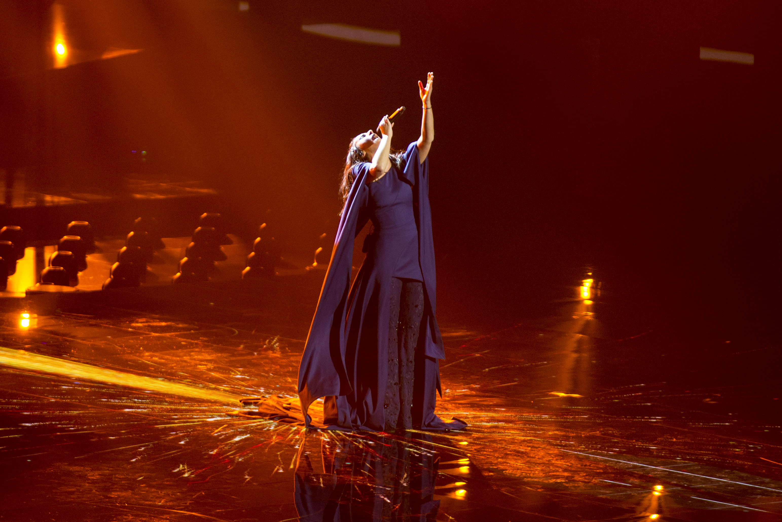 Jamala representing Ukraine with the song "1944" during a rehearsal before the second semi final of the Eurovision Song Contest 2016 in Stockholm. (Help translate this text)